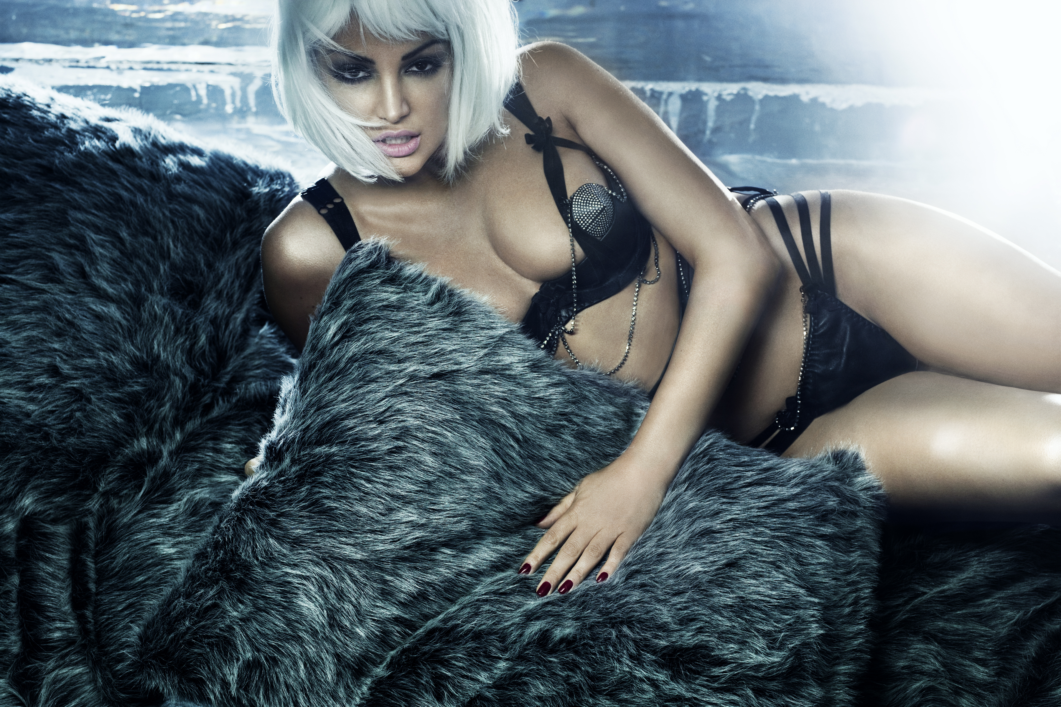 Bleona Qereti video bikini